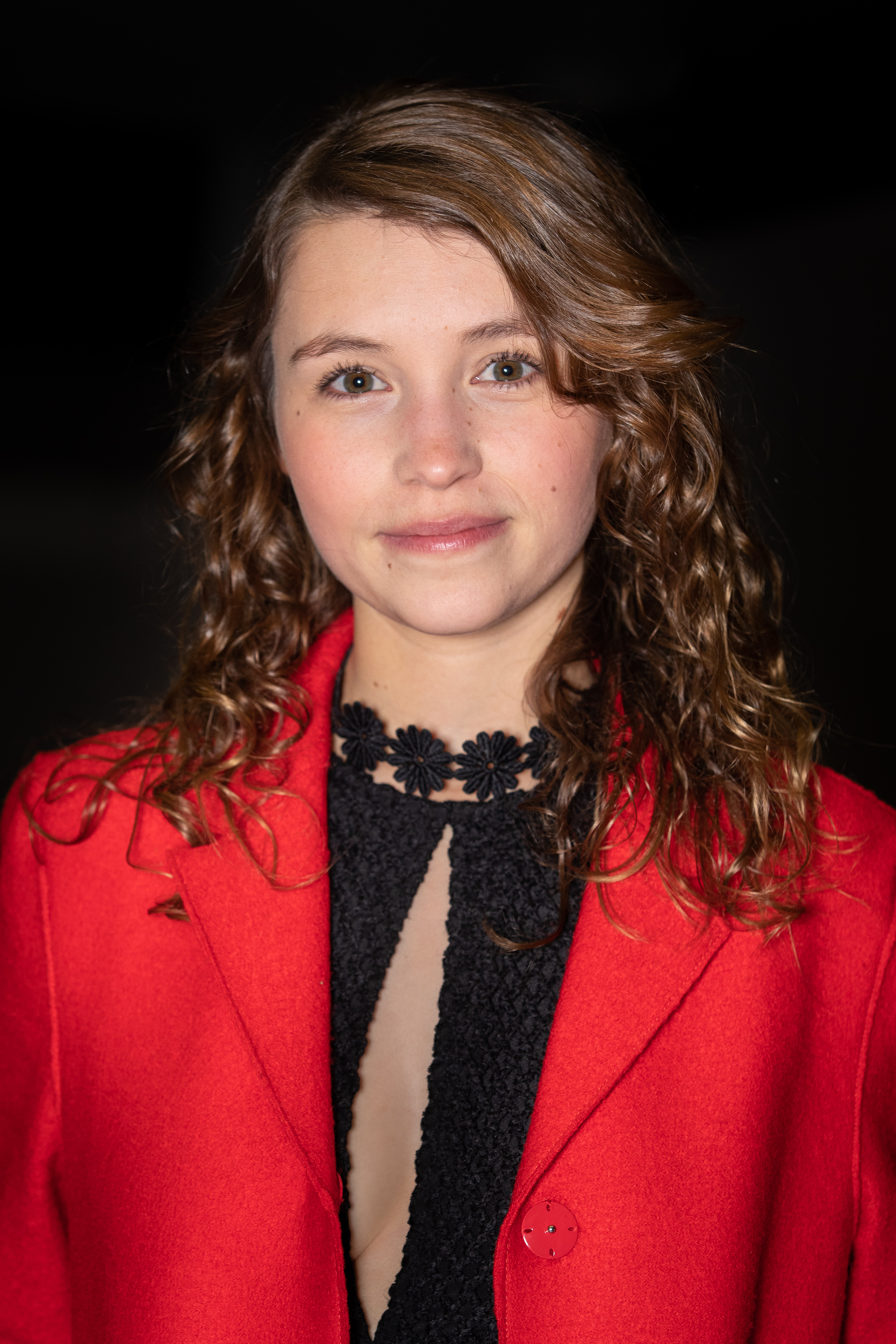 Janina Fautz at the reception of arte during the Berlinale 2020